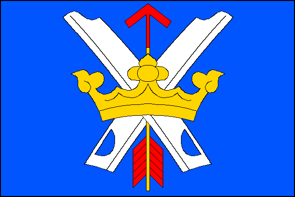 Municipal flag of Krušovice , District Rakovník, Czech Republic